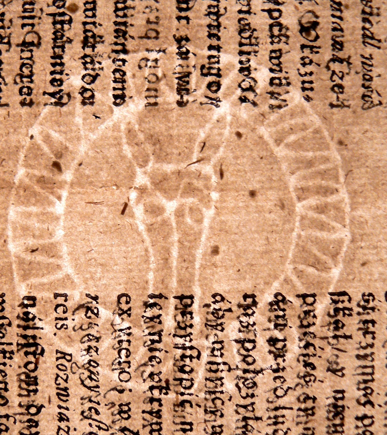 Watermark